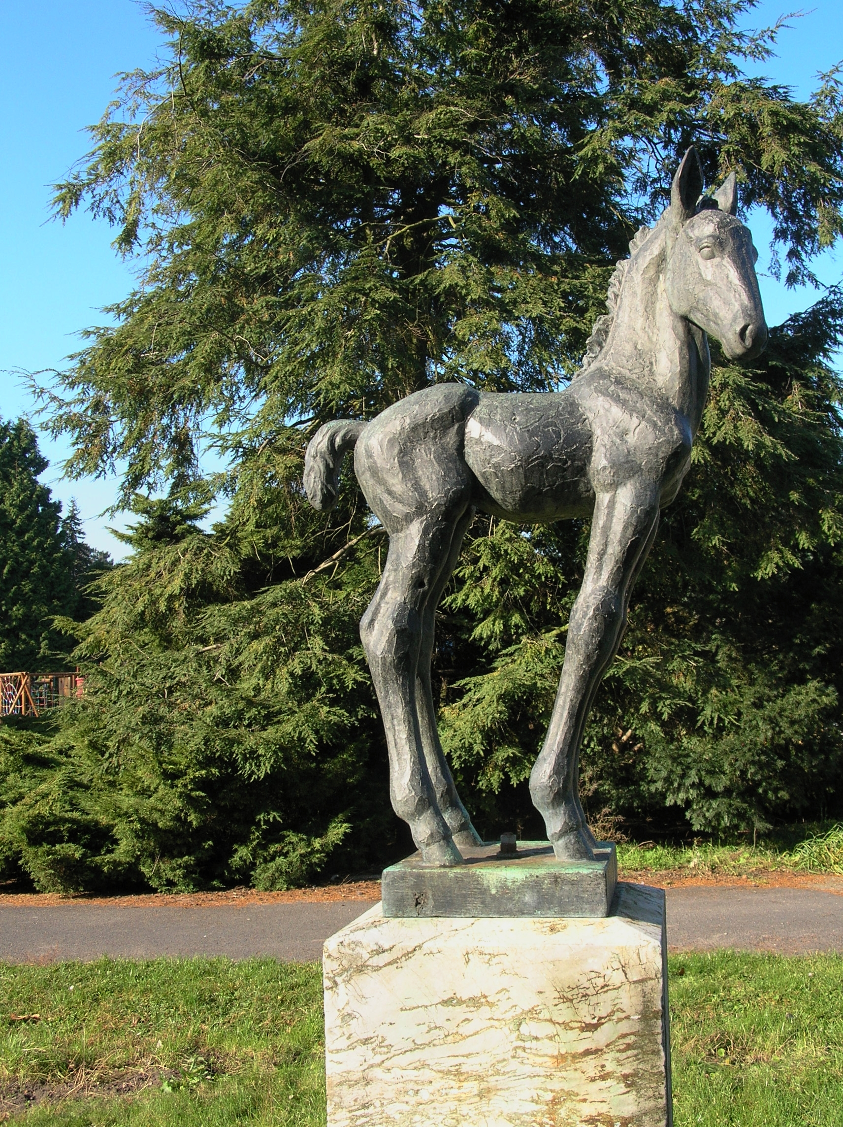 The bronze colt statue in Wrocław Zoo by Inge Jaeger-Uhthoff, make in Berlin in 1939.